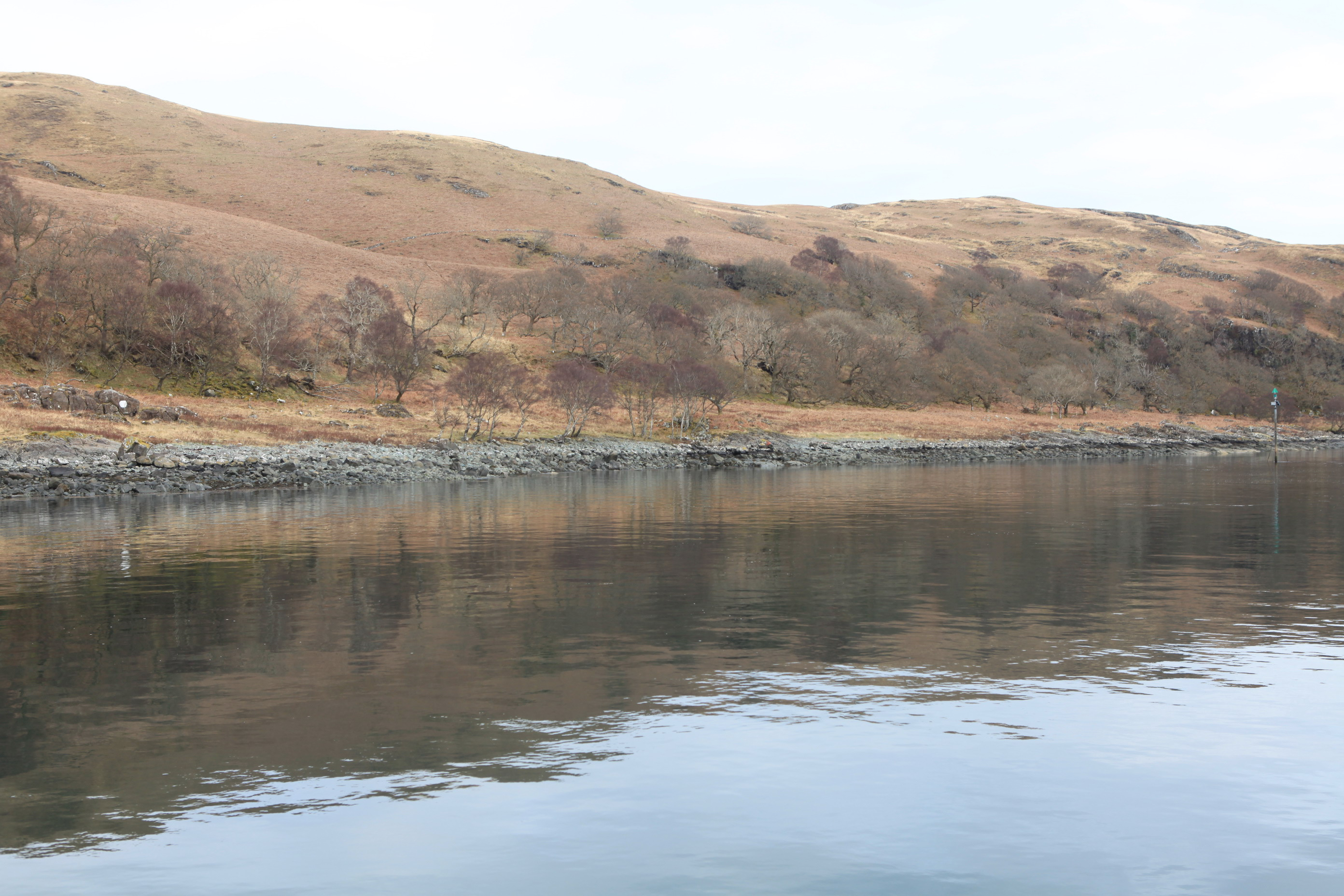 Entrance to Loch Spelve looking towards Port na Saille There are some hazards for mariners entering or leaving Loch Spelve; the kyle is narrow and at spring tides there is a considerable tidal flow or stream. These pictures are taken at neap tide (when the Sun and Moon are not working in unison and there is not so much difference between high and low water and a slow tidal stream). Just off the picture to the right, there is a large underwater rock called the mushroom which mariners need to avoid, so to aid mariners the entrance is marked with leading lines and marks. One of the marks is the white painted rock to the extreme left of the picture; a further mark is the Green Starboard hand mark or perch (to the right of the picture) which is marking a smaller reef to the left side of the channel. This combined with a cross marked on the rock to the left of the perch is a further mark. (The perch and the rock are almost in line on this picture, when they are aligned this indicates that you are clear of the mushroom rock.)